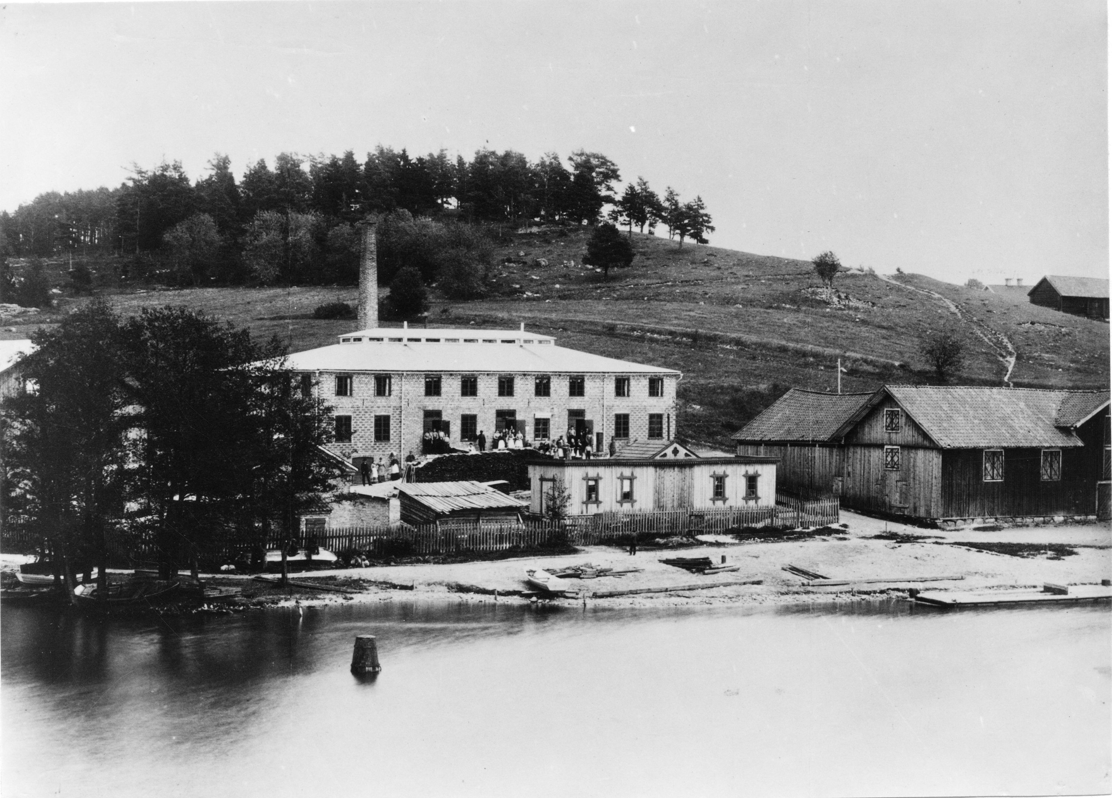 Södertelje Tändsticksfabrik match factory building by Södertälje canal 1886. City of Södertälje in the province of Södermanland, Sweden